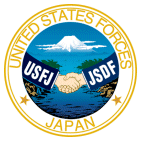 Joint service emblem of Commander, U.S. Forces Japan. This is an old logo. The current logo is: United States Forces, Japan Logo.gif